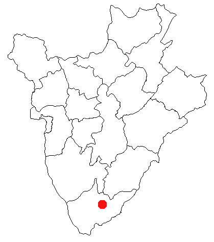 Makamba, Burundi Location Map; created with the GIMP. Made by User:Acntx.